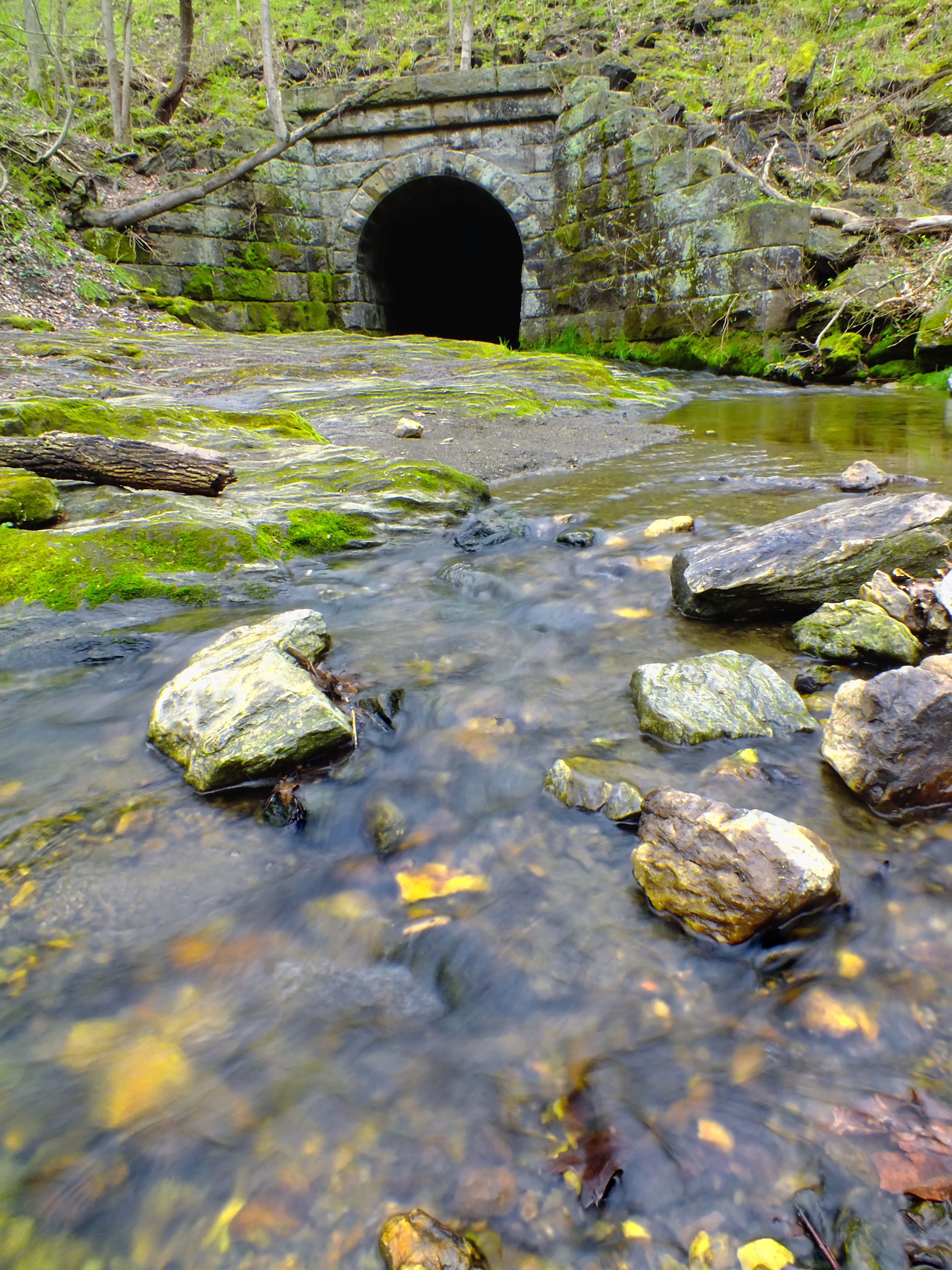 Grubb Run, Conestoga Township, Lancaster County, within the Shenks Ferry Wildflower Preserve.